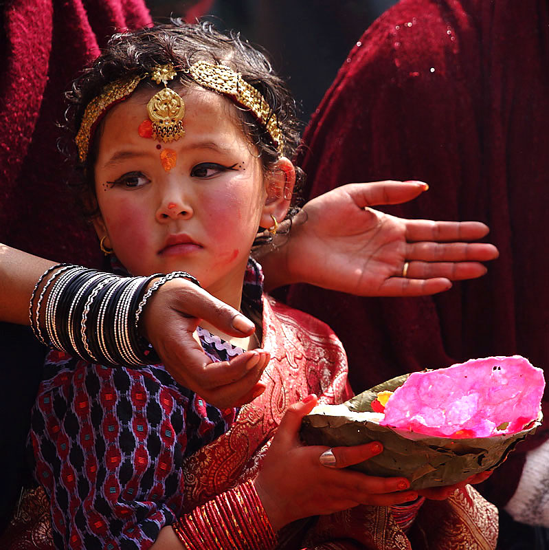 A hindu devotee in Nepal